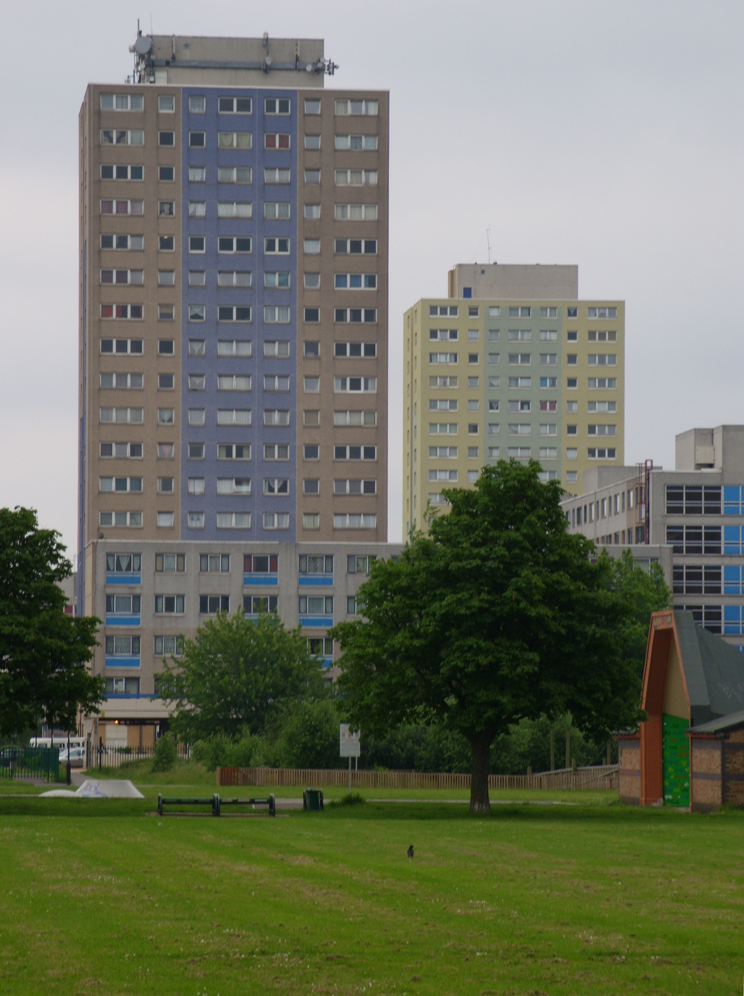 Kenley and Northolt Towers, Broadwater Farm, London N17